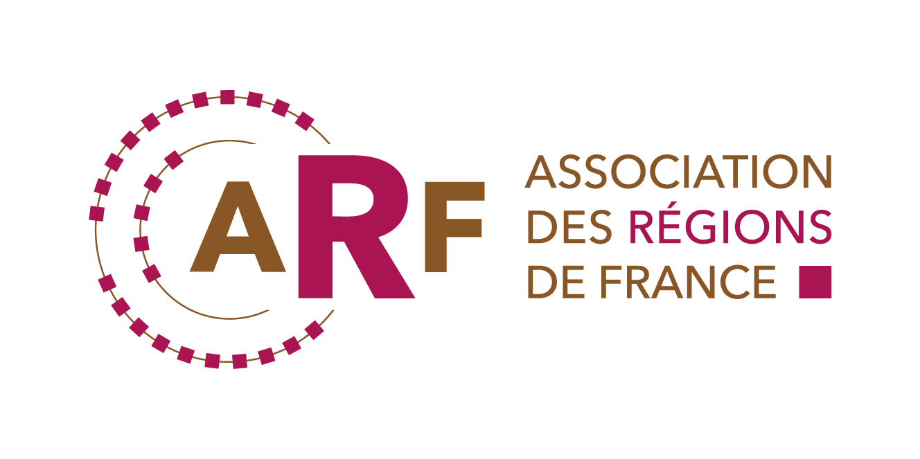 LOGO ARF 2011